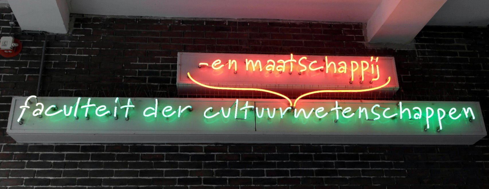 Maastricht, the Netherlands. Neon sign at the entrance of Hof van Tilly, the 18th-century mansion of the Count of Tilly, governor of Maastricht, now part of the Faculty of Arts and Social Sciences of Maastricht University.